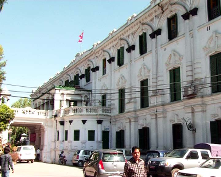 Rana's Building